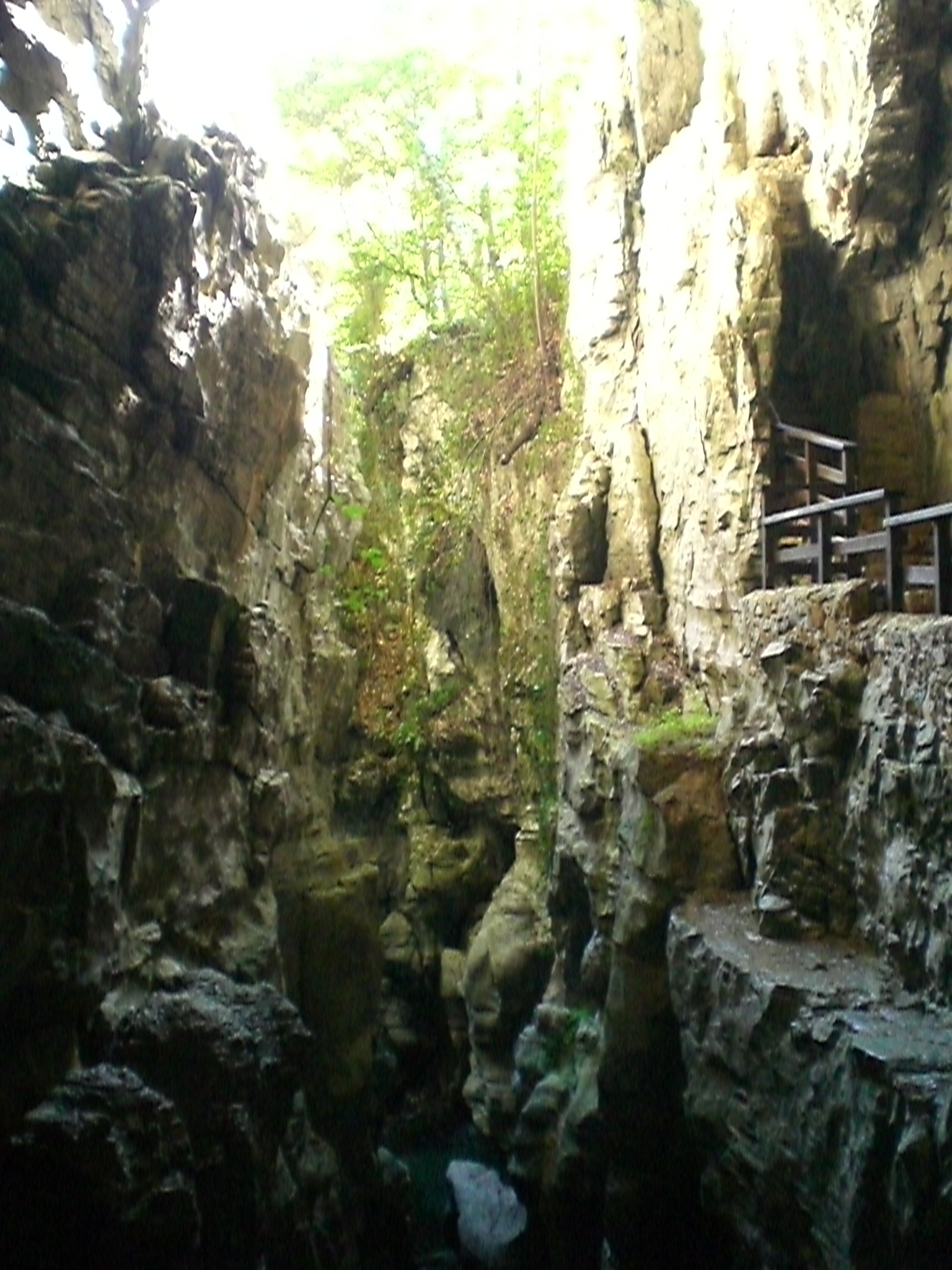 Bussento cave near Morigerati